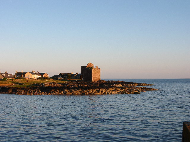 Portencross Castle at sunset.